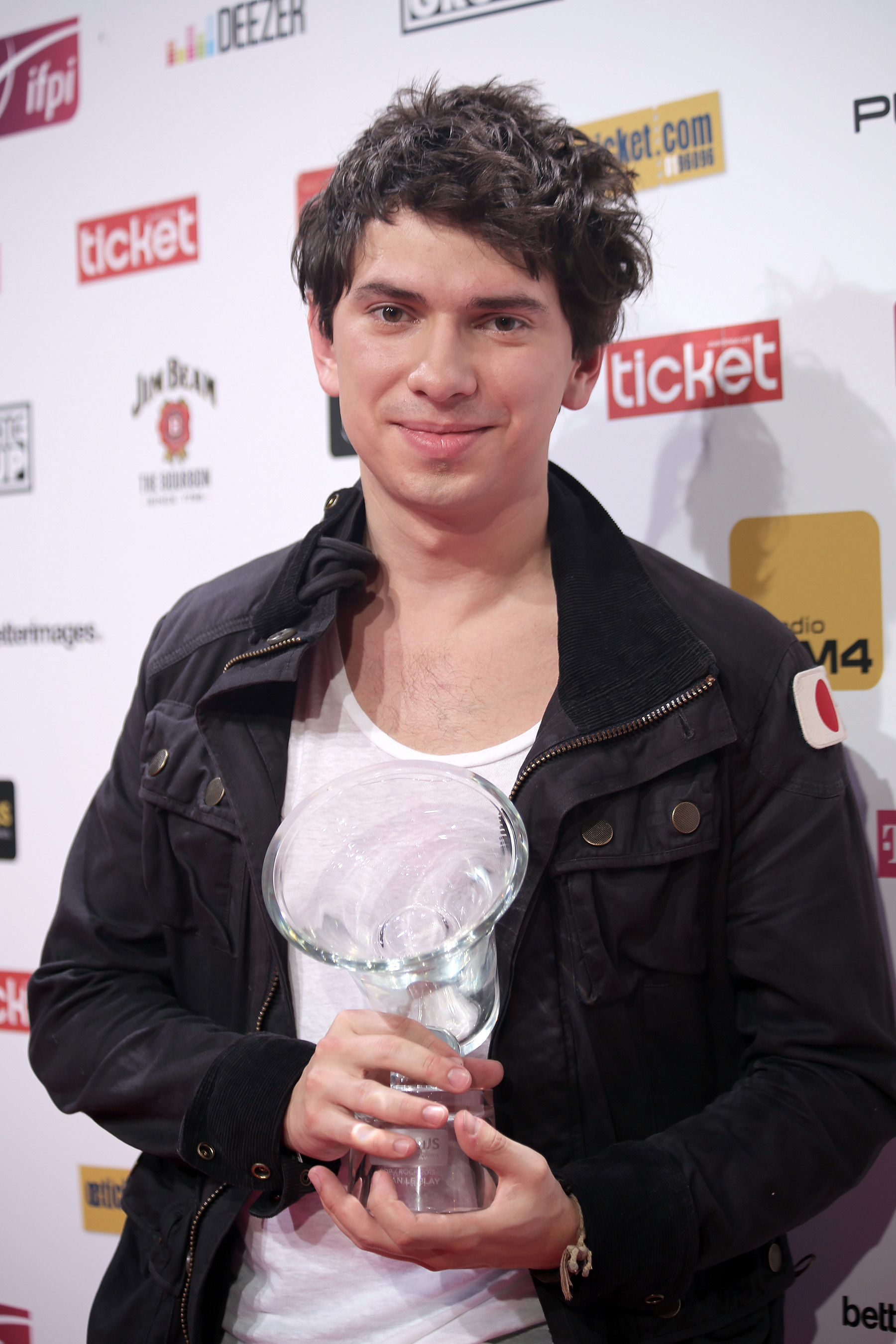 Julian le Play at the Amadeus Austrian Music Award at Volkstheater in Vienna